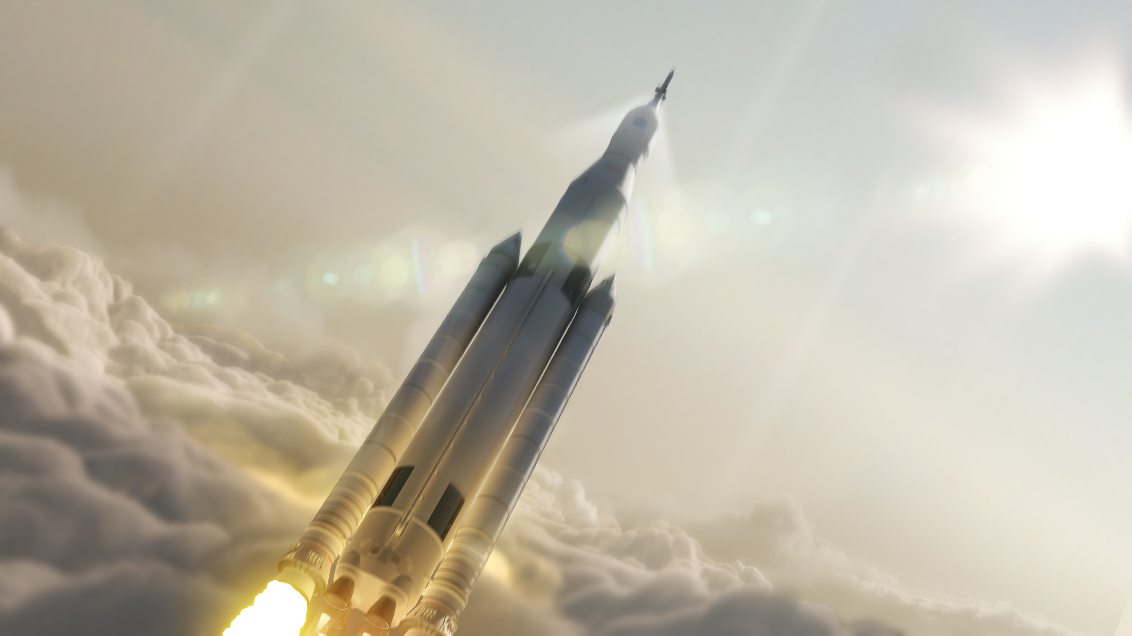 Artist’s impression of NASA’s Space Launch System (SLS) 70-metric-ton configuration launching to space.